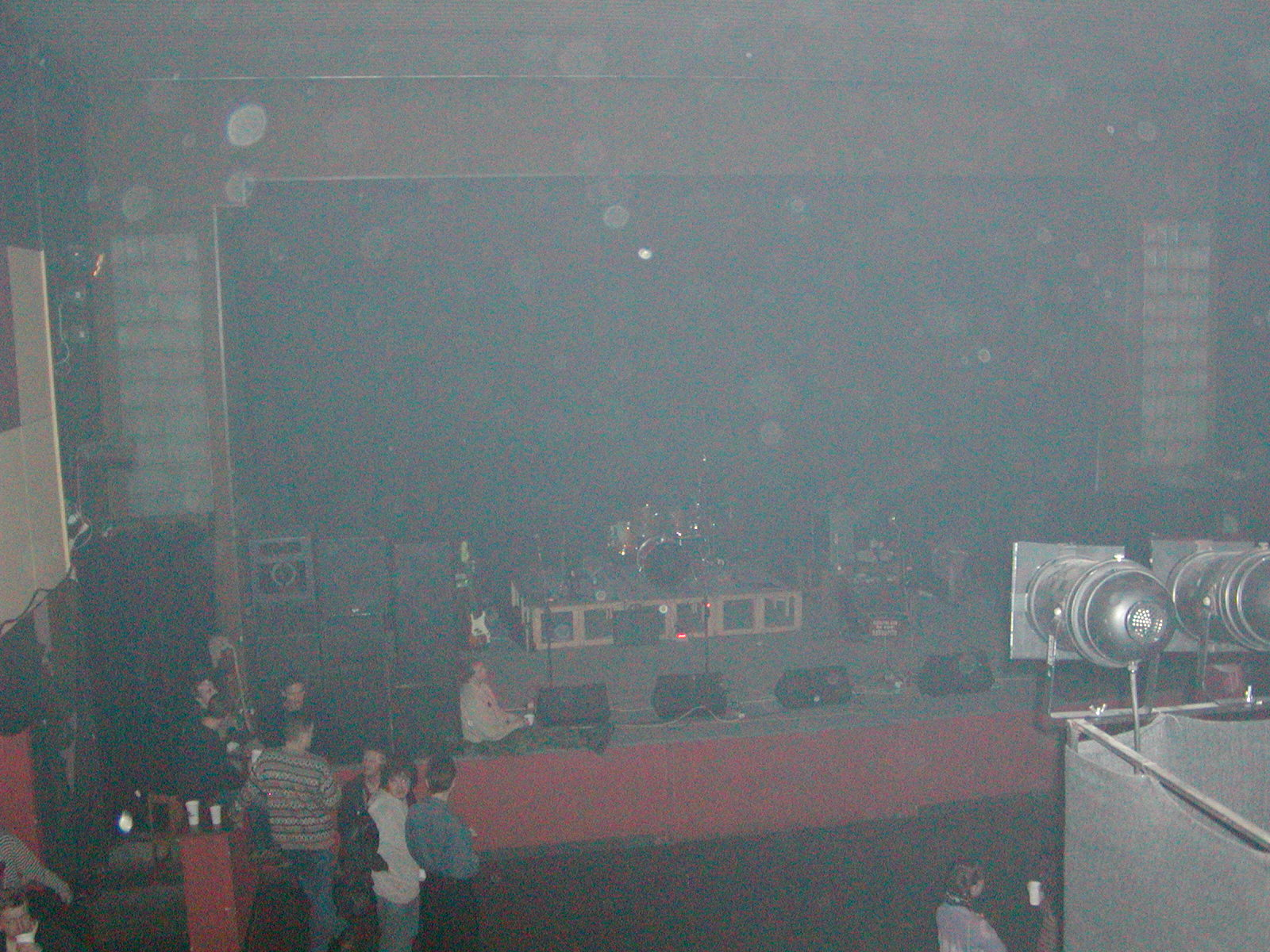 Cigarette smoke on music concert in Divadlo pod Čarou, Písek Czech Republic 2002